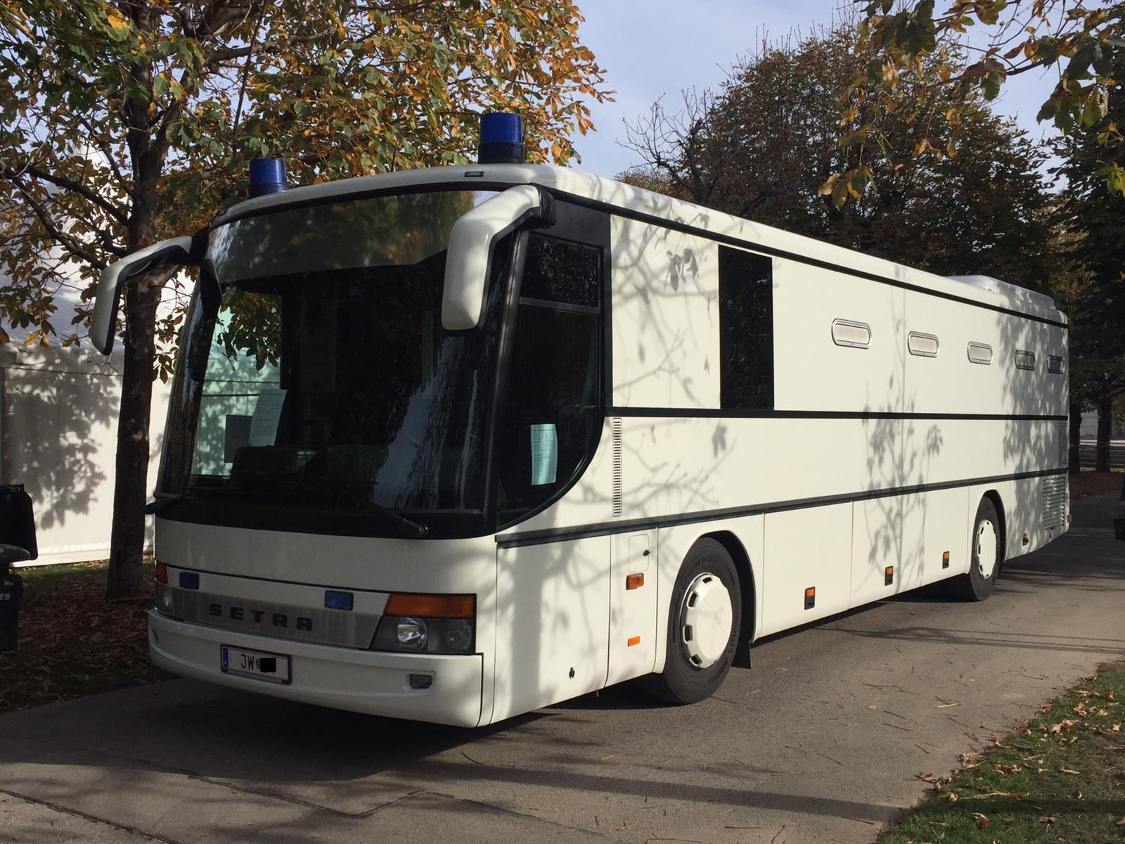 Cellbus of the Austrian Penitentiary Police